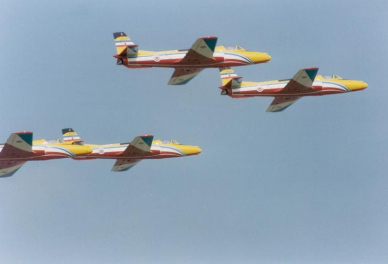 J-21 Jastreb aircraft of Kanarinci acro group of YuAF. Picture taken at the Ljubljana Airshow